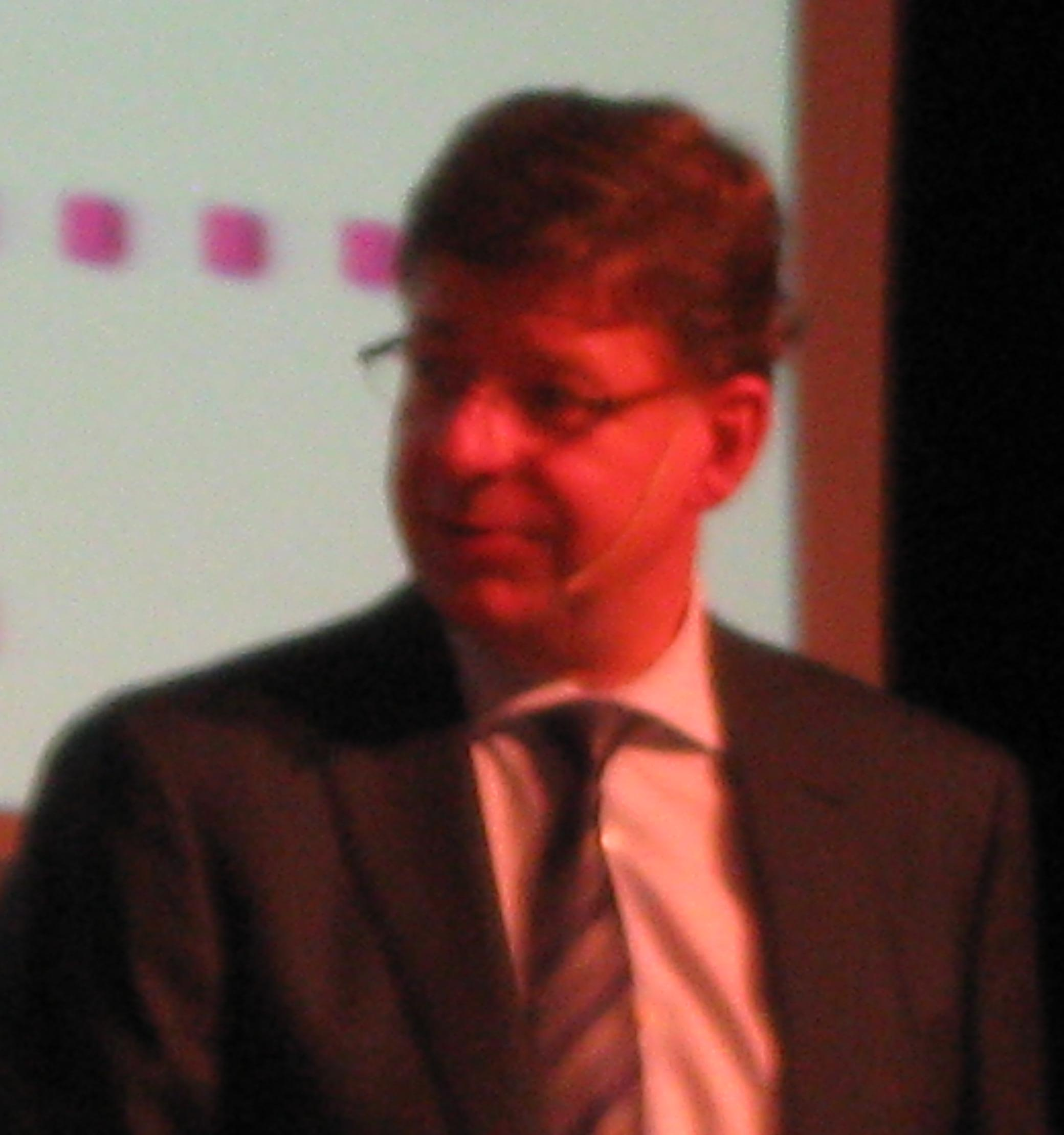 Reinhard Clemens